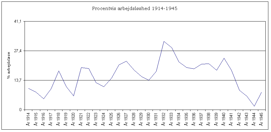 The development of the unemployment i Denmark 1914-1945, expressed as a percent of the workers who were ensured.